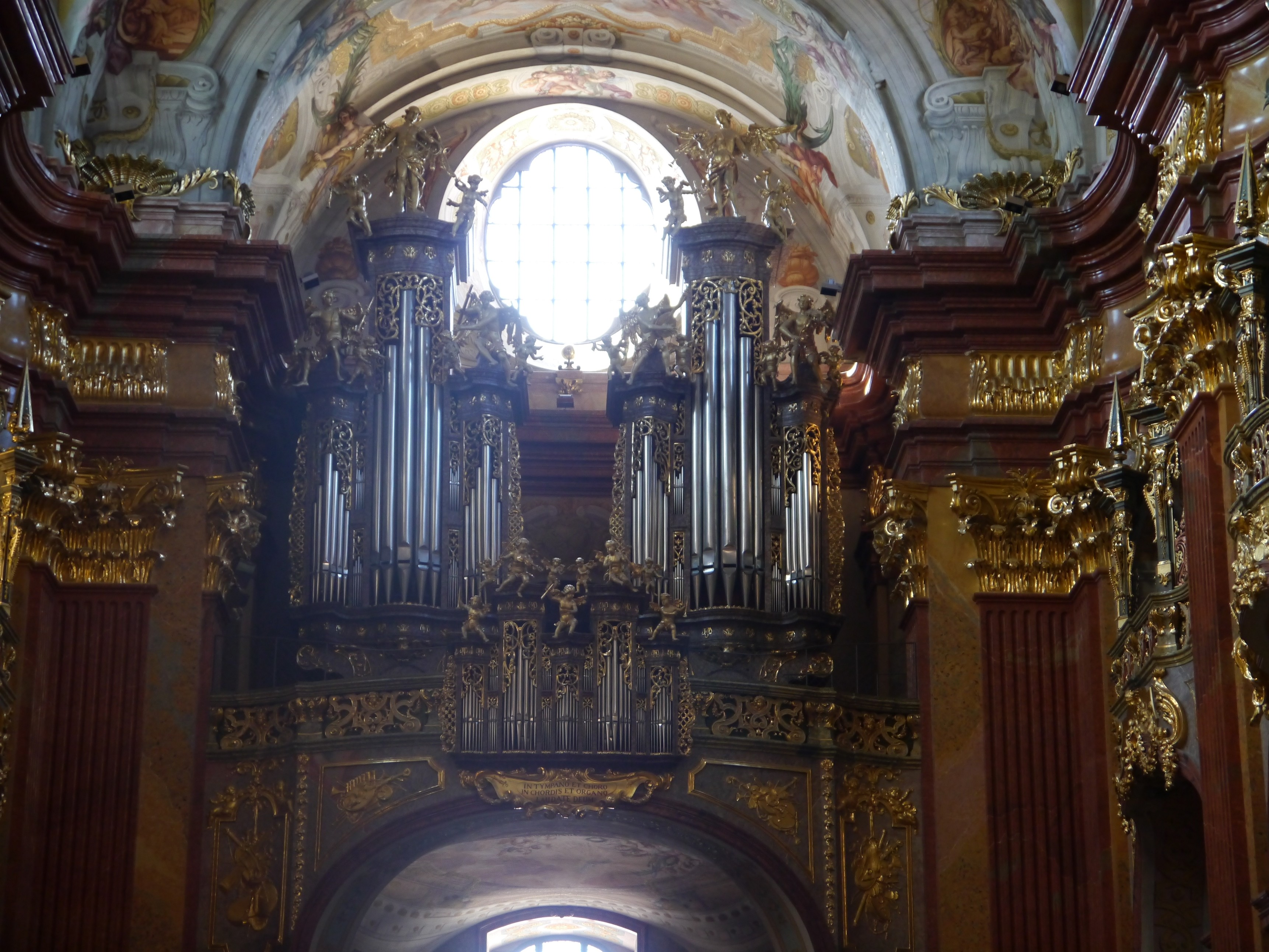 Organ of Melk Abbey Church, Melk